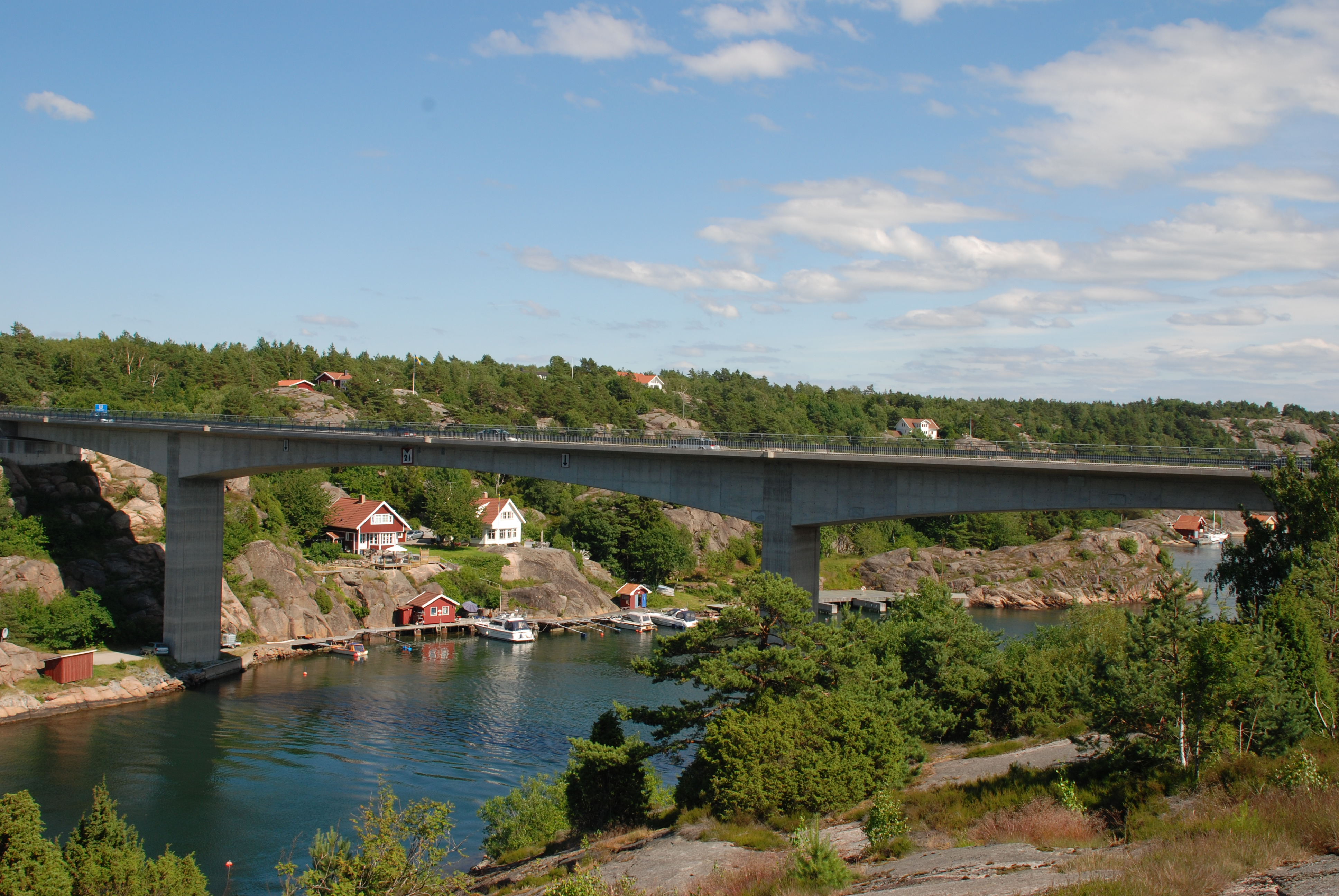 The bridge Skåpesundsbron between the islands Tjörn and Orust on the western coast of Sweden, seen from Tjörn.